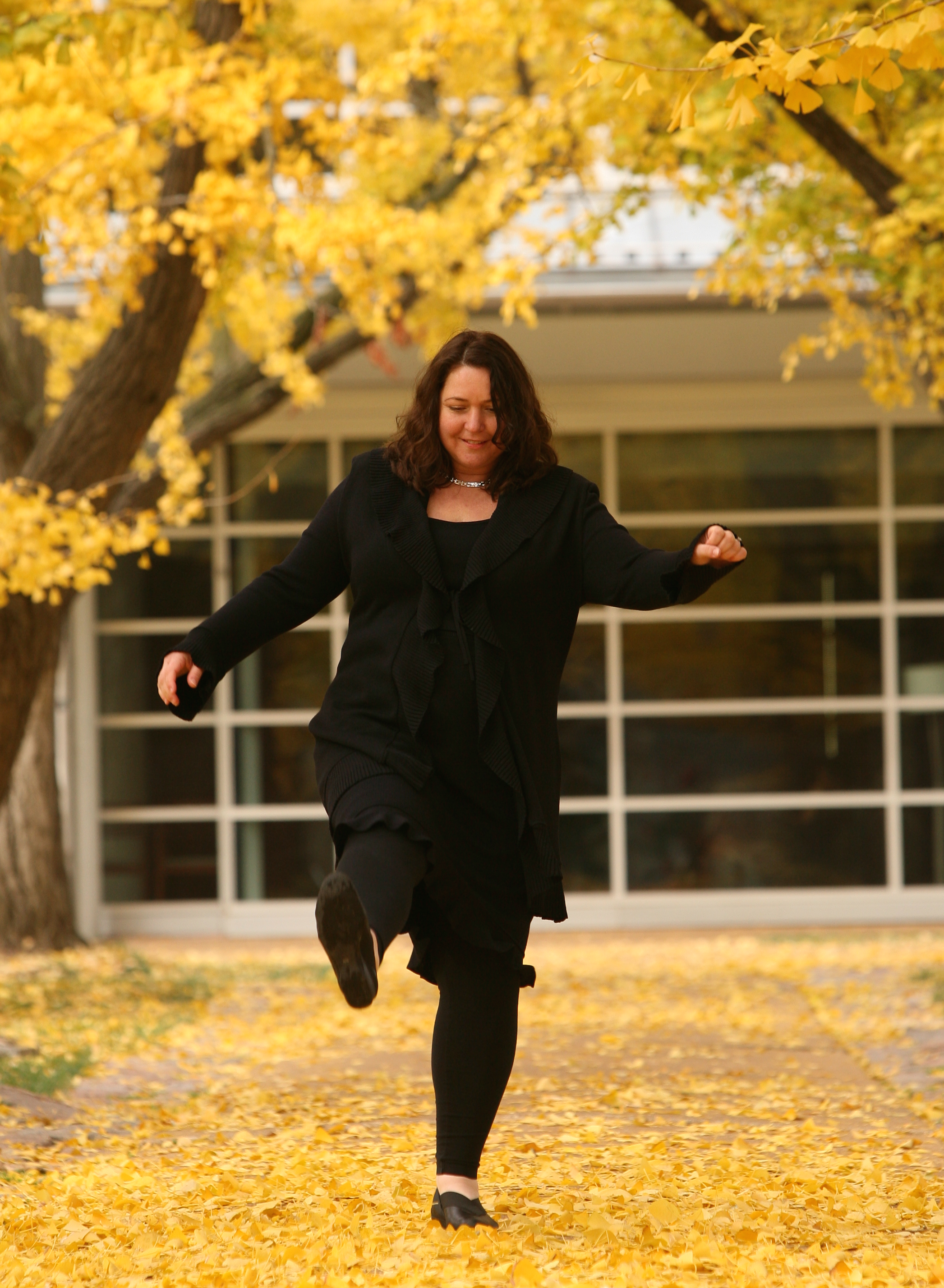 Anna Patterson Portrait